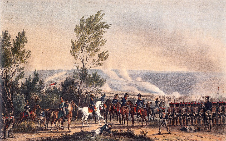 French troops at the battle of Valutino (1812)